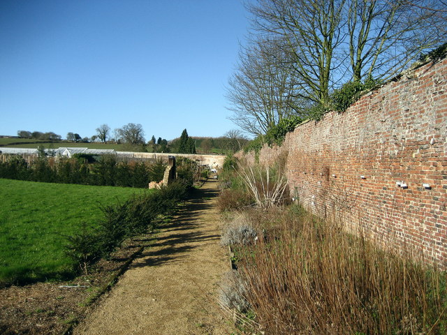 Inside the Walled Garden, Helmsley This restored walled garden is just west of the castle in Helmsley - a wonderful place to visit in summer, not bad in winter either when entry is by donation. A large selection of plants and seedlings are for sale at reasonable prices